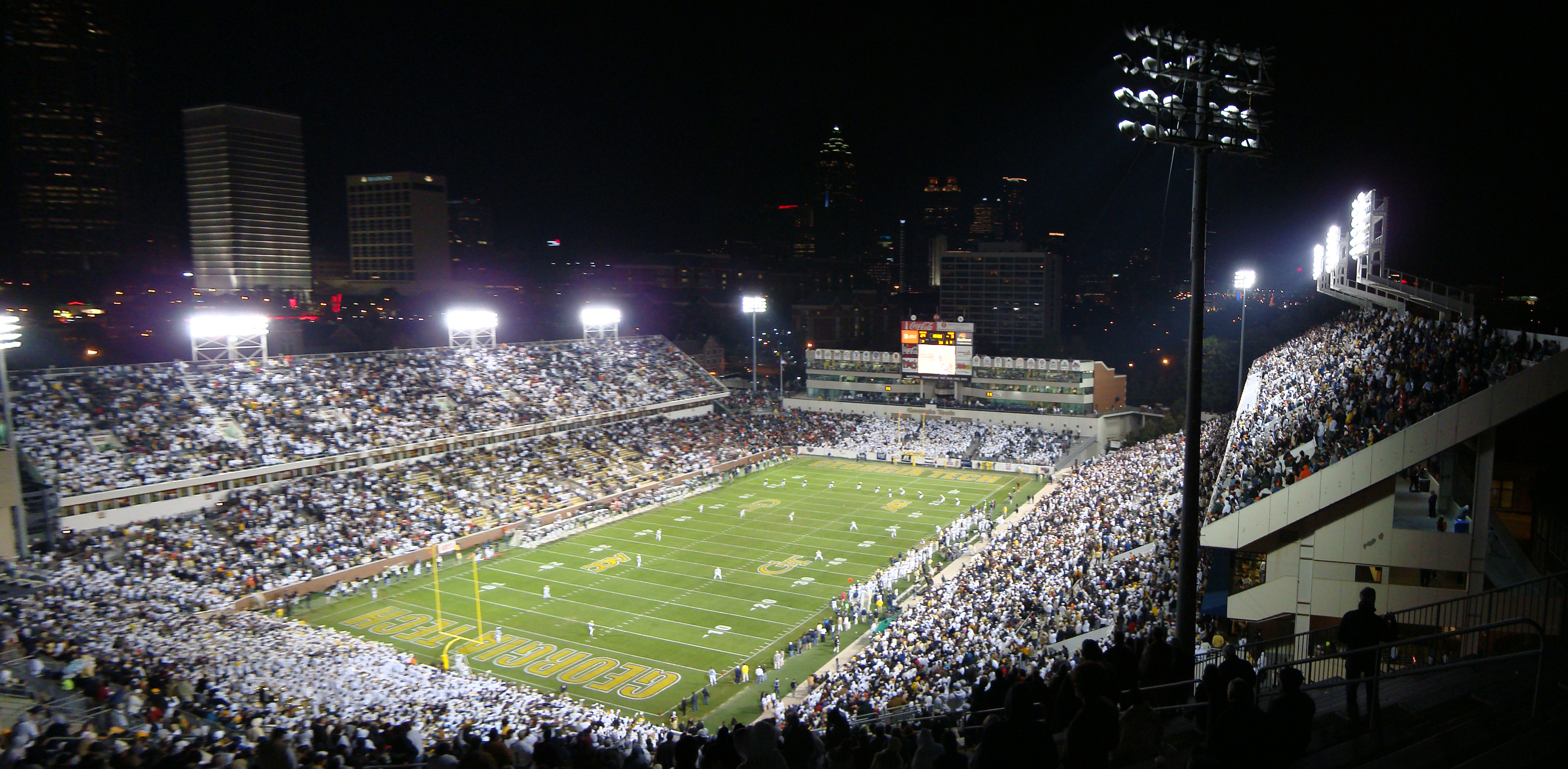 Bobby Dodd Stadium at Historic Grant Field during the game between the Georgia Tech Yellow Jackets and Miami Hurricanes on November 20, 2008